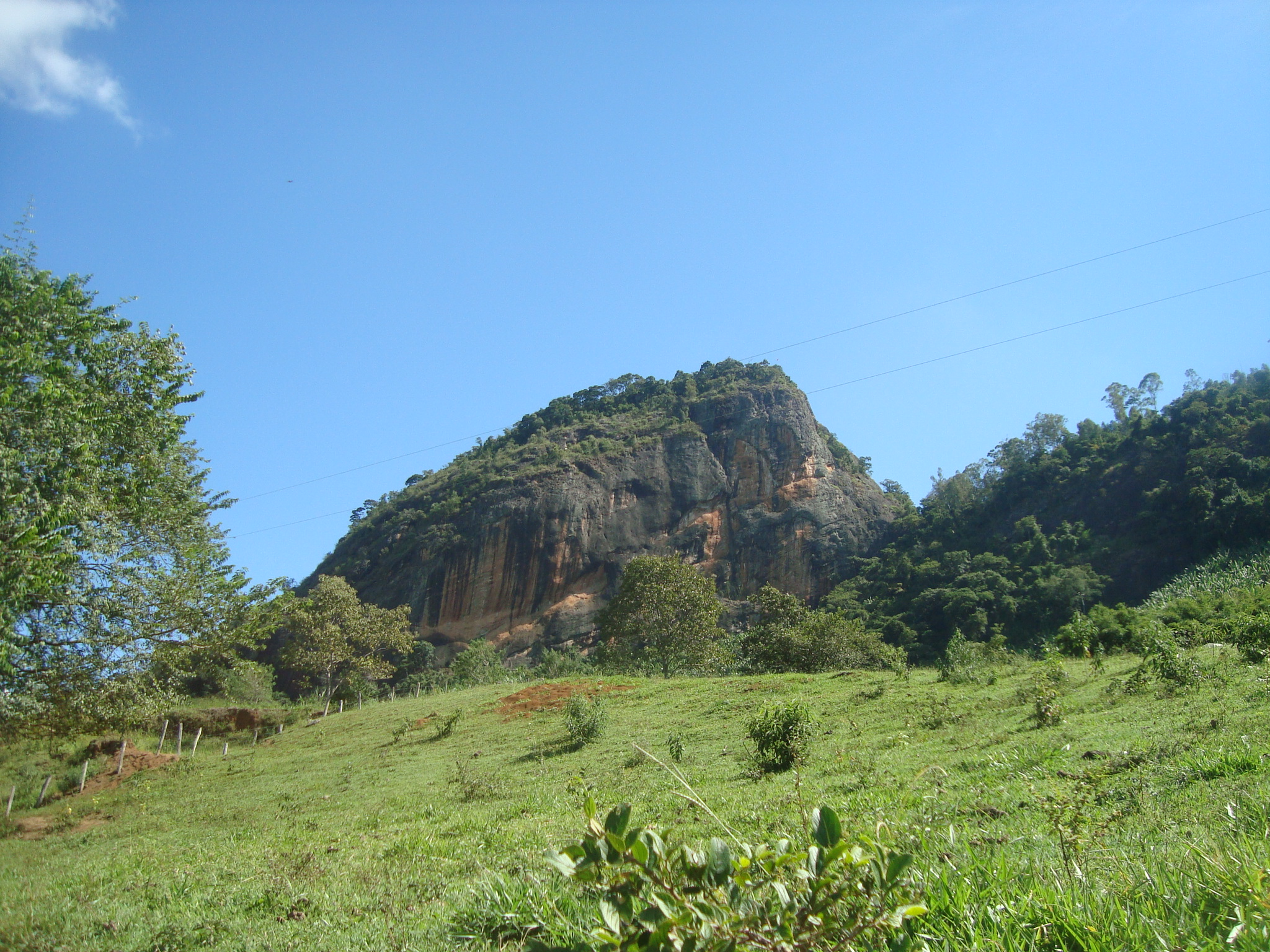 Photography of the Red Rock (Pedra Vermelha), located in the city of Itajubá, Brazil.